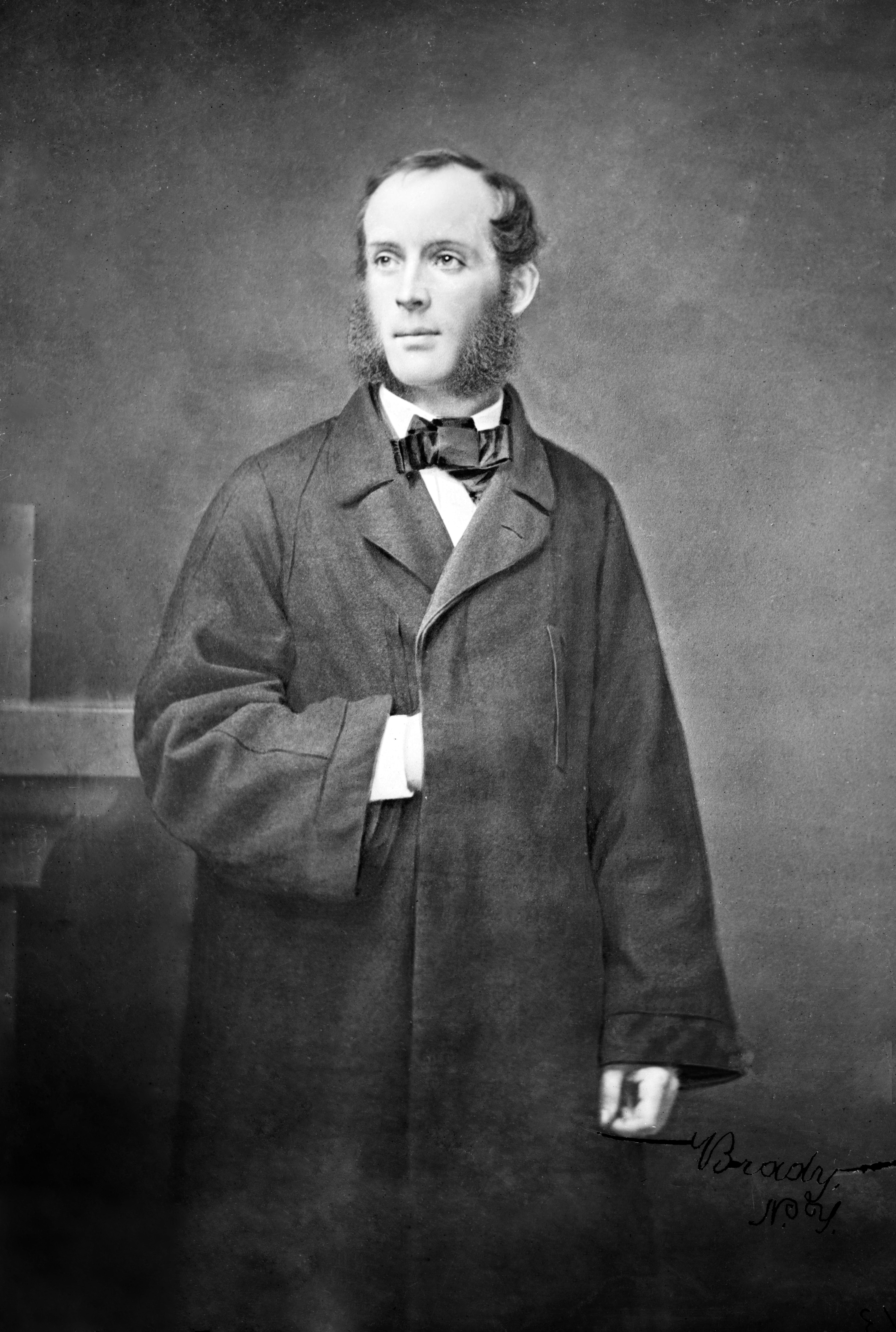 Frederic Edwin Church. Library of Congress description: "Frederick E. Church"